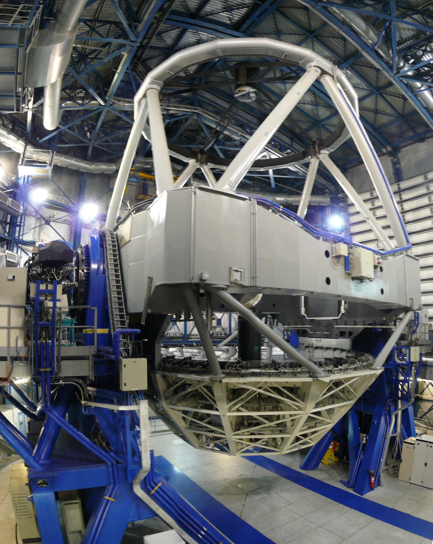 UT3 preparing for observations